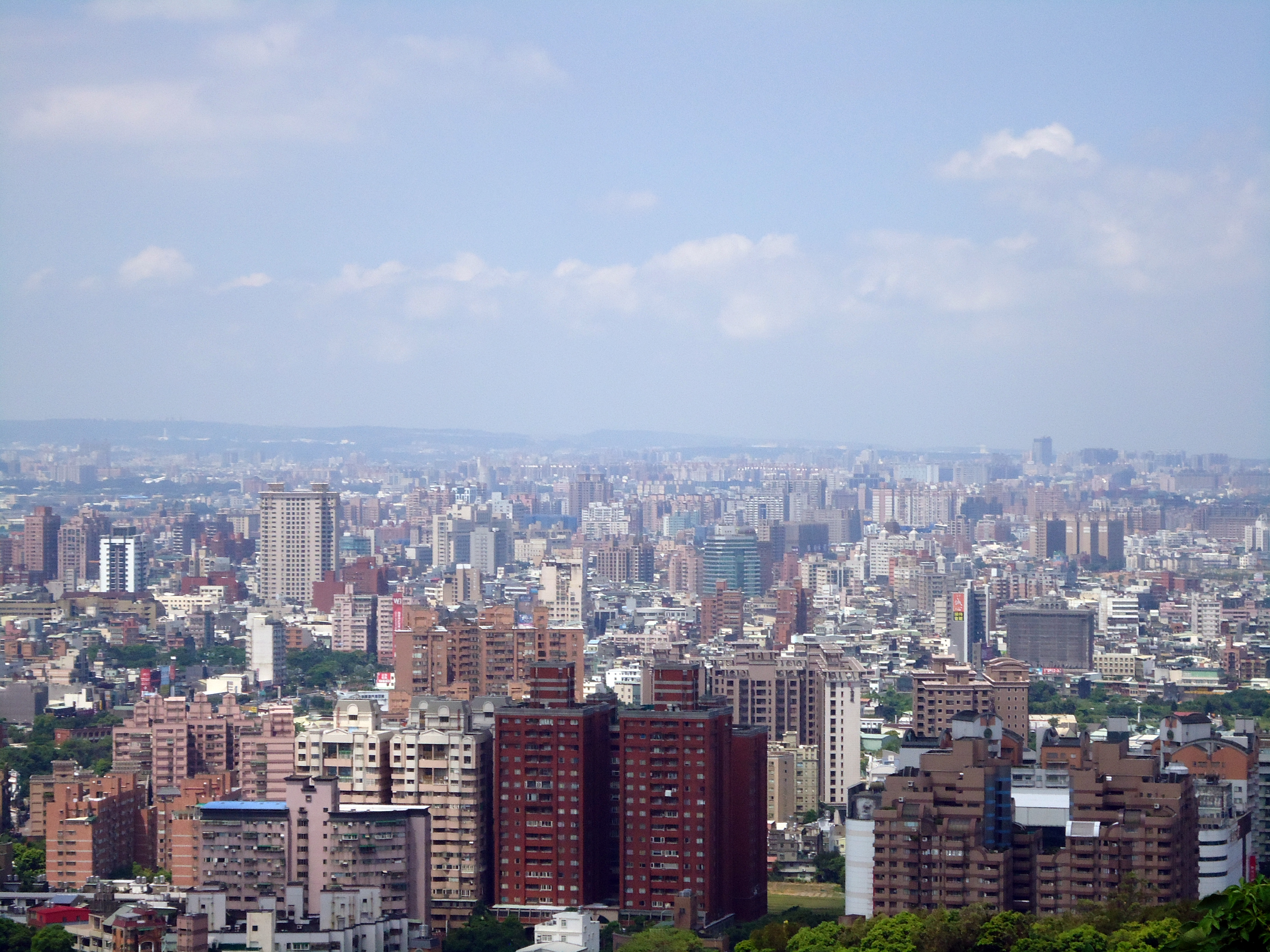 Taoyuan city's Scenery, Taiwan. From Hutoushan Green Park.